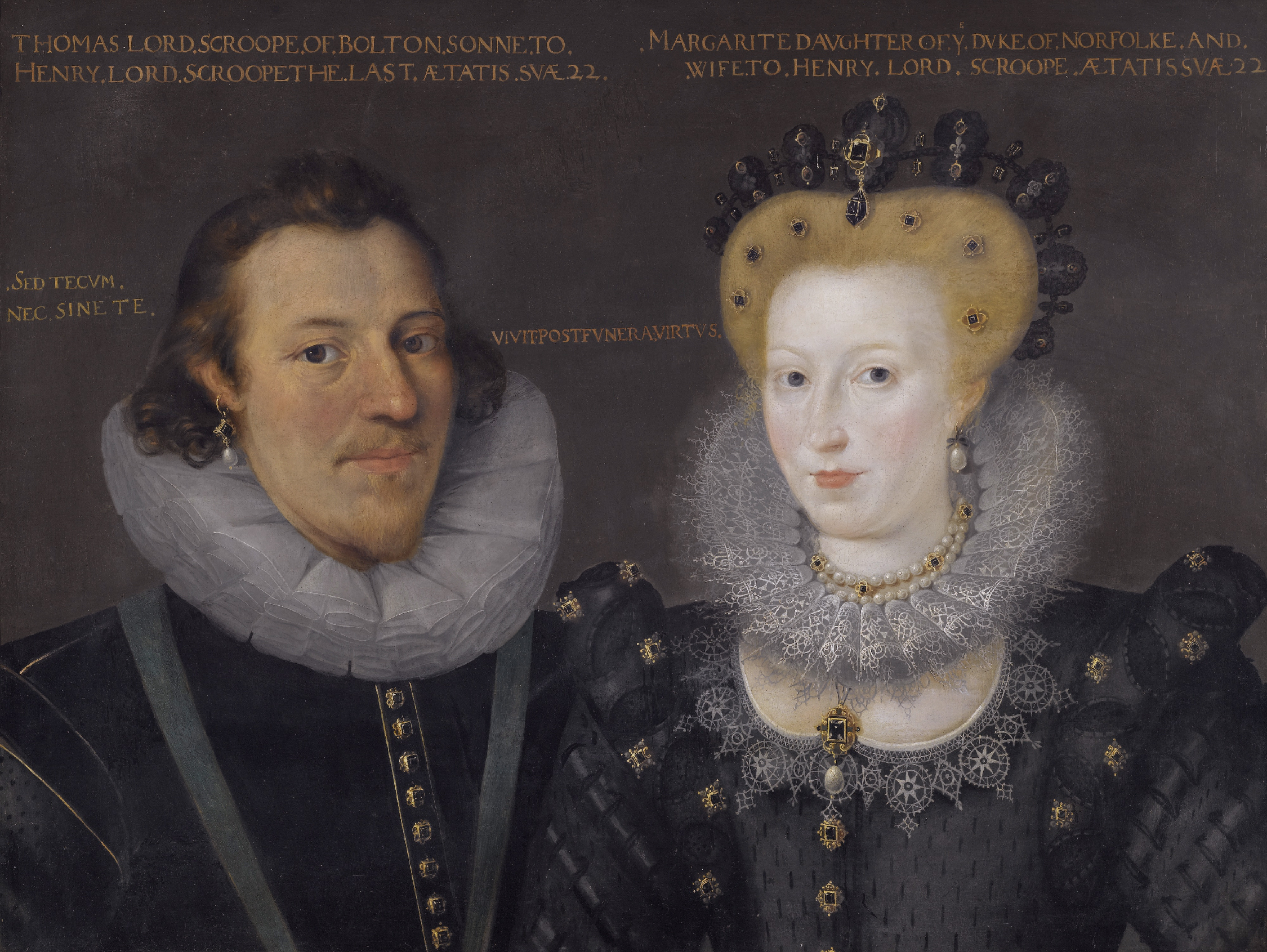 Thomas Lord Scrope (c.1567-1609) and his mother Margaret Howard (1543-1591) oil on panel 66.5 x 86.5 cm later inscribed u.l.: THOMAS LORD.SCROOPE.OF.BOLTON.SONNE.TO. / HENRY.LORD.SCROOPETHE.LAST.AETATIS.SVAE22.; and u.r.: MARGARITEDAVGHTEROF.YE.DUKE.OF.NORFOLKE.AND.WIFE.TO.HENRY.LORD.SCROOPE.AETATISSVAE.22; and c.l.: SED TECVM.NEC.SINE TE.; and c.: VIVIT.POSTFVRNERA;VIRTVS.